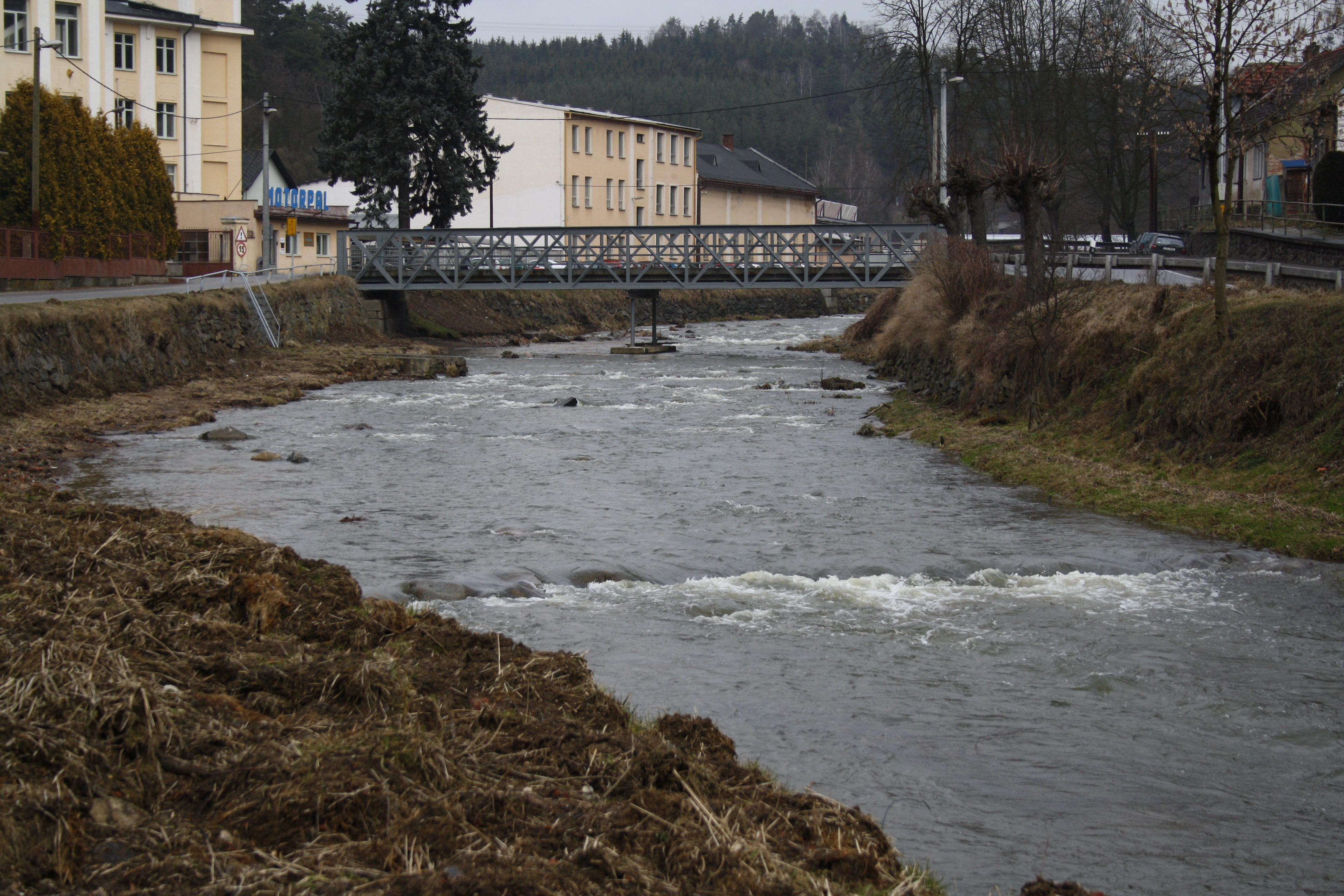 Oslava river near Motorpal in Velké Meziříčí, Czech Republic.